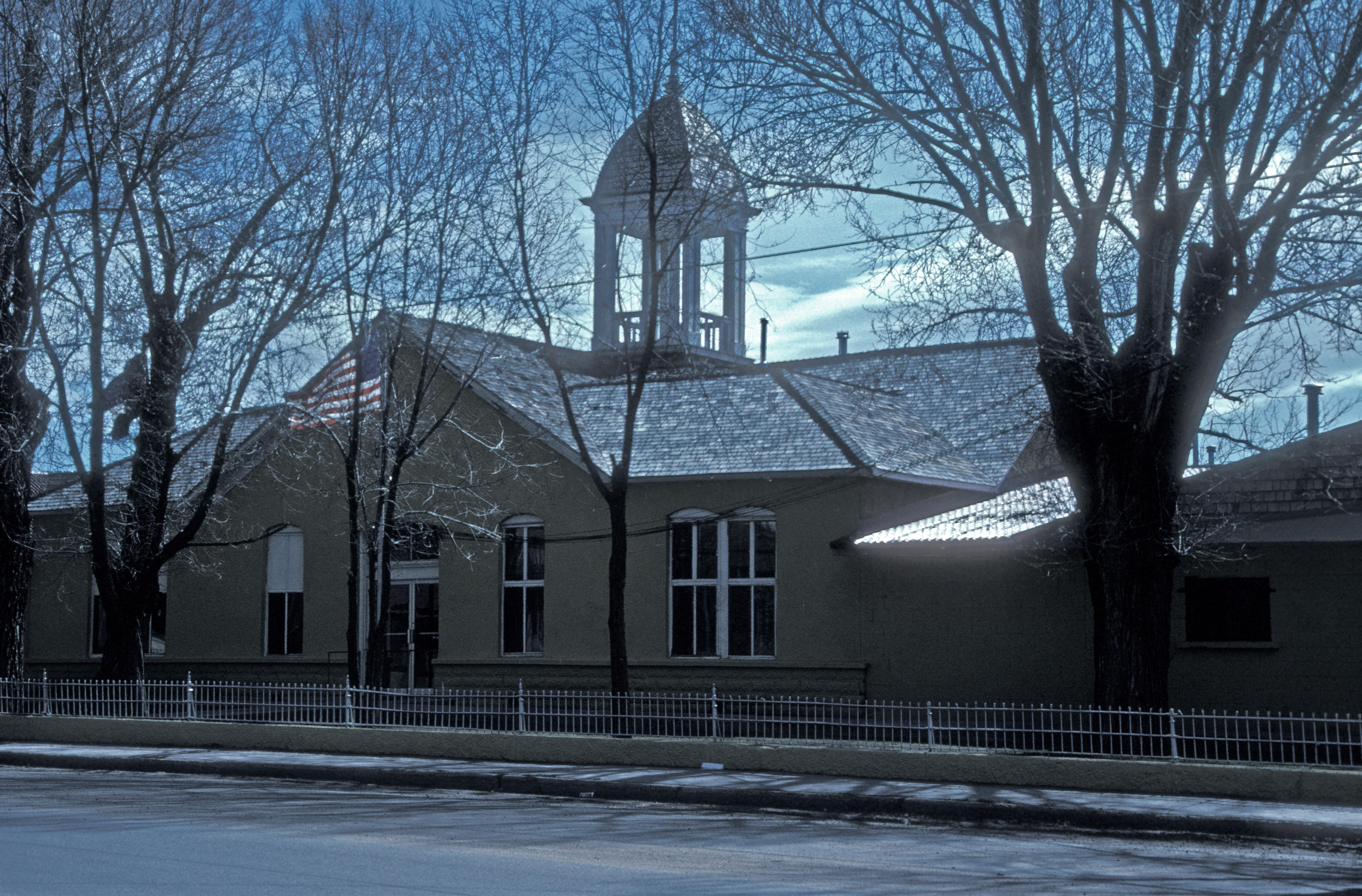 COSTILLA COUNTY COURTHOUSE IN SAN LUIS, THE OLDEST TOWN IN COLORADO